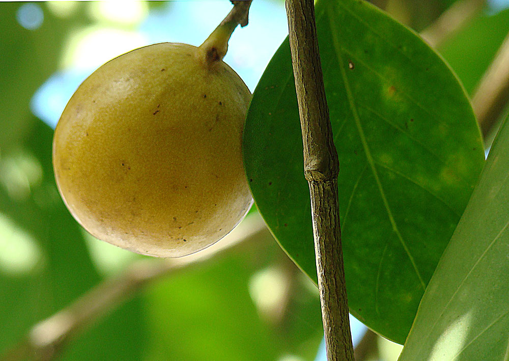 The Manzana de Muerte, better known as Manchineel, is a very poisonous species found around the Caribbean and northern Neotropics. Photo from Bastimentos Island, northwestern Panama. In context at